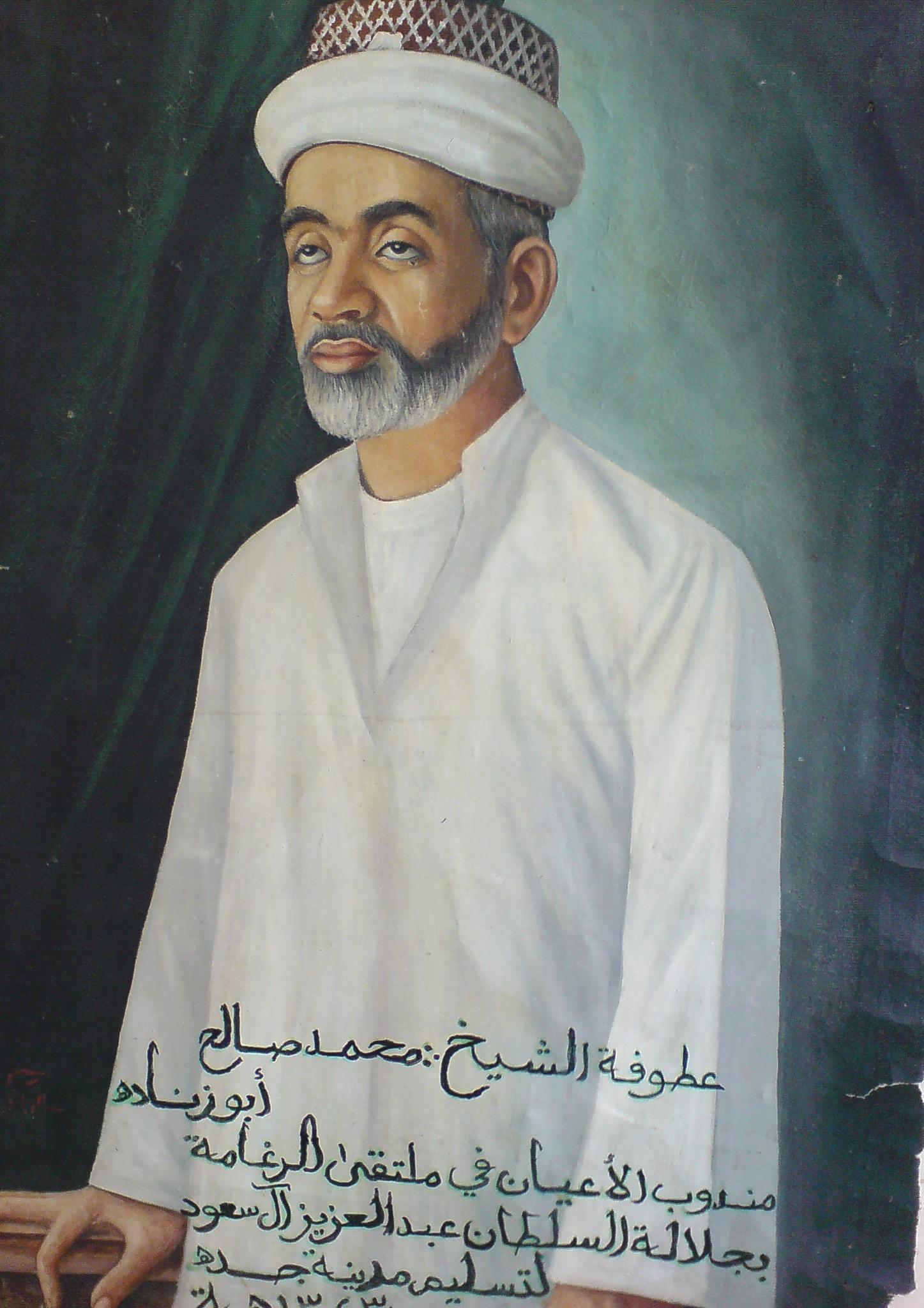 Abu Zenada , one of Chiefs of Jeddah during the surrender to King Abdulaziz Ibn Saud . painted in 1925 .